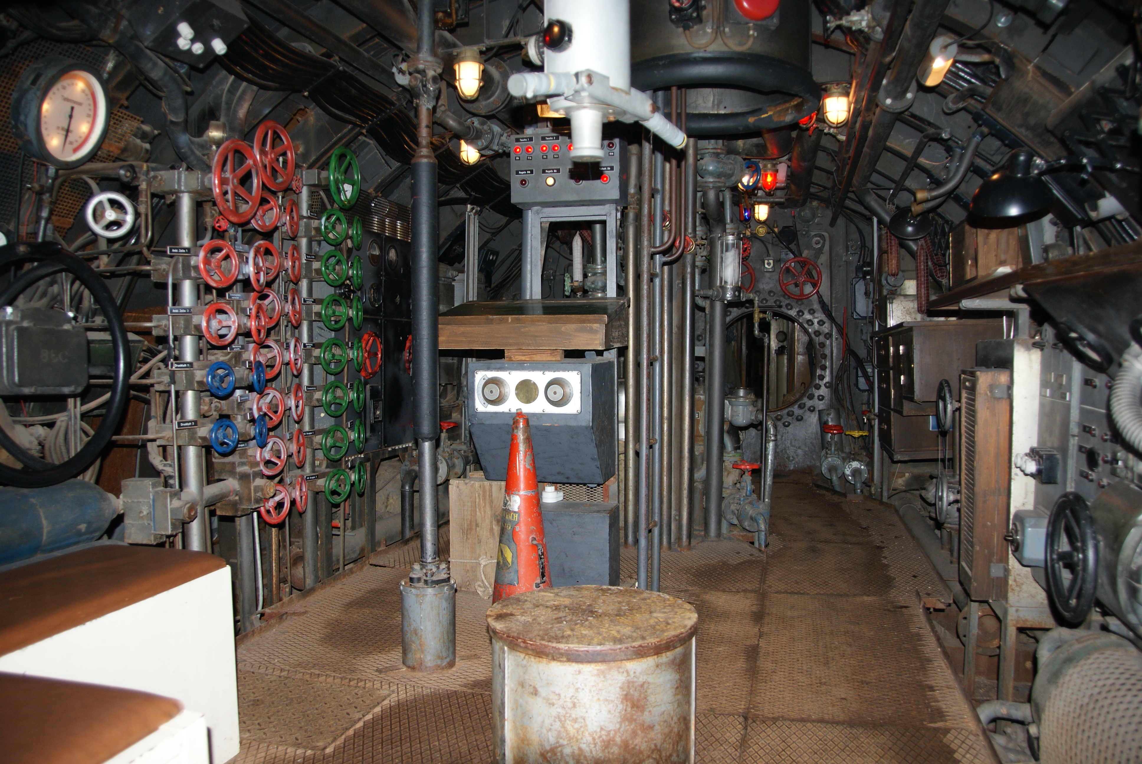 Film set of Das Boot at the Bavaria Film Studios